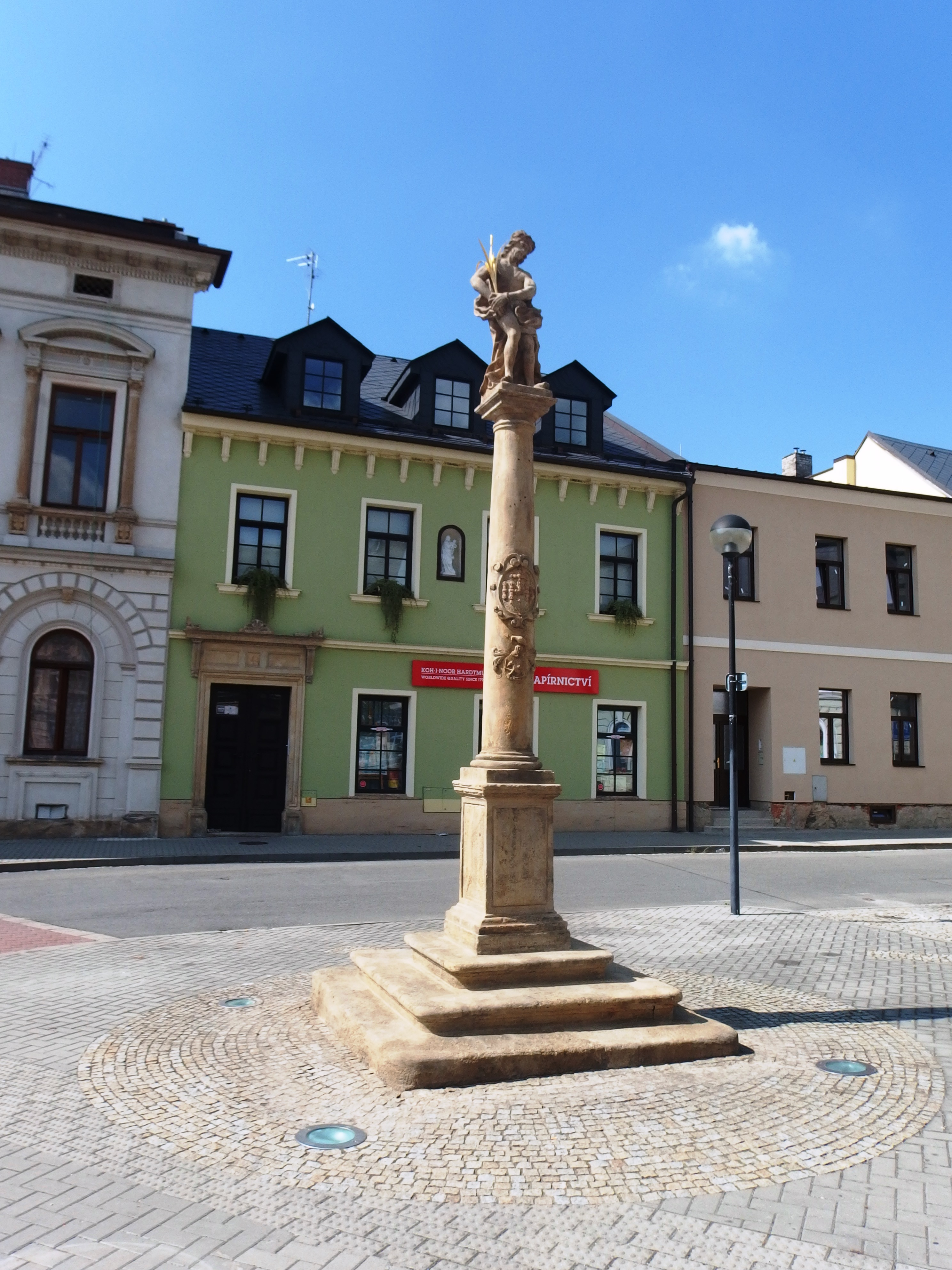 Šternberk, Olomouc District, Czech Republic. Bezručova Street.